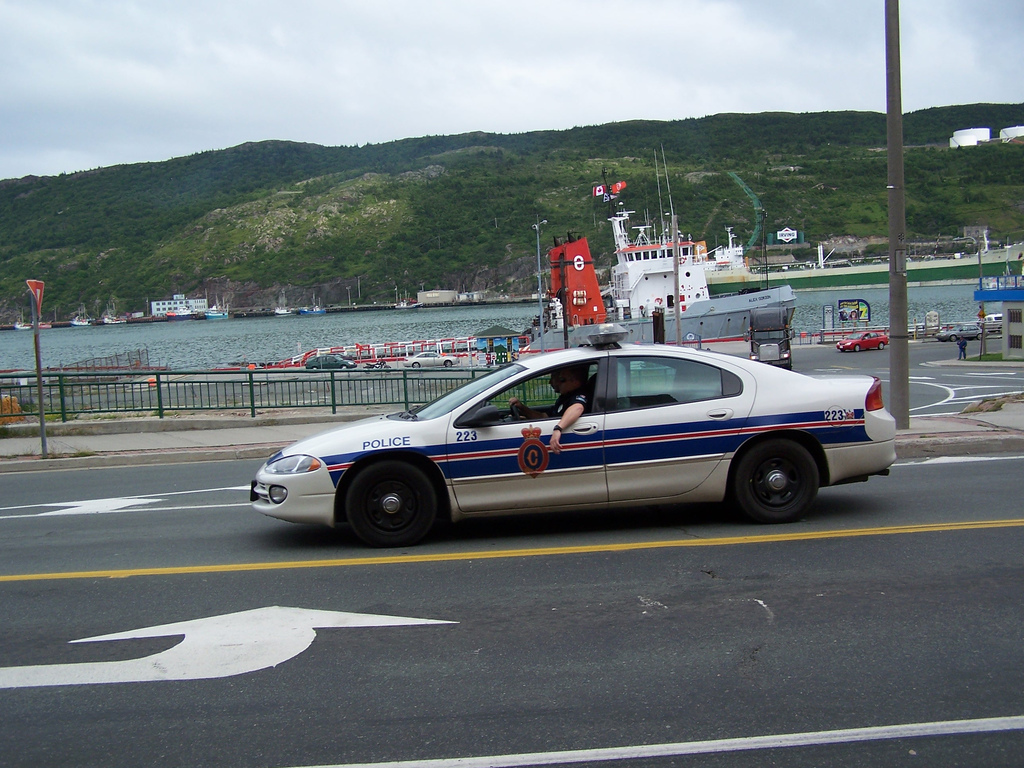 A Royal Newfoundland Constabulary Dodge Intrepid in St John's, Newfoundland and Labrador.